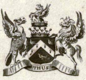 1 = Arms of Jervis, Earls of Saint Vincent.